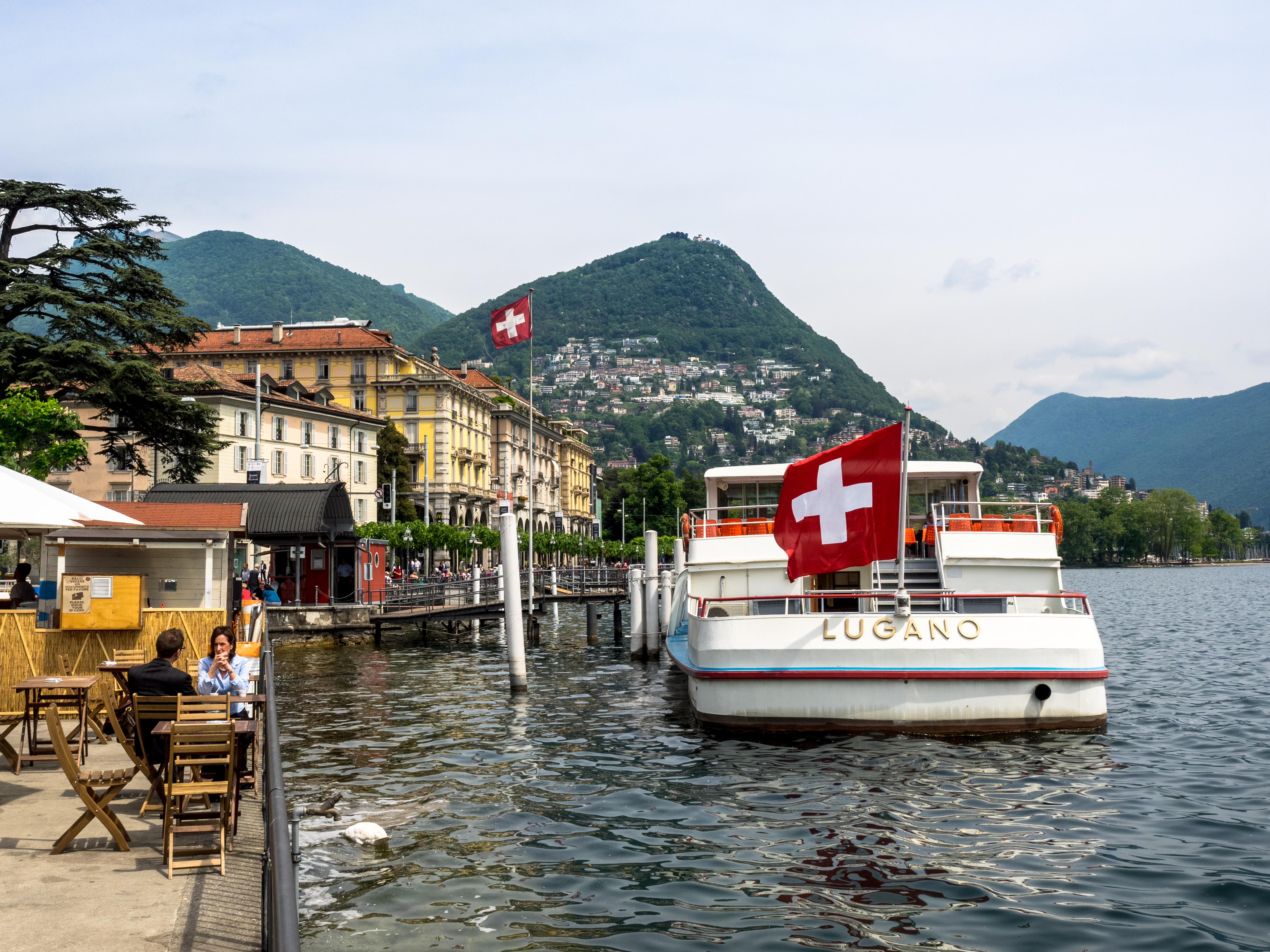 Lugano, City and Lago di Lugano